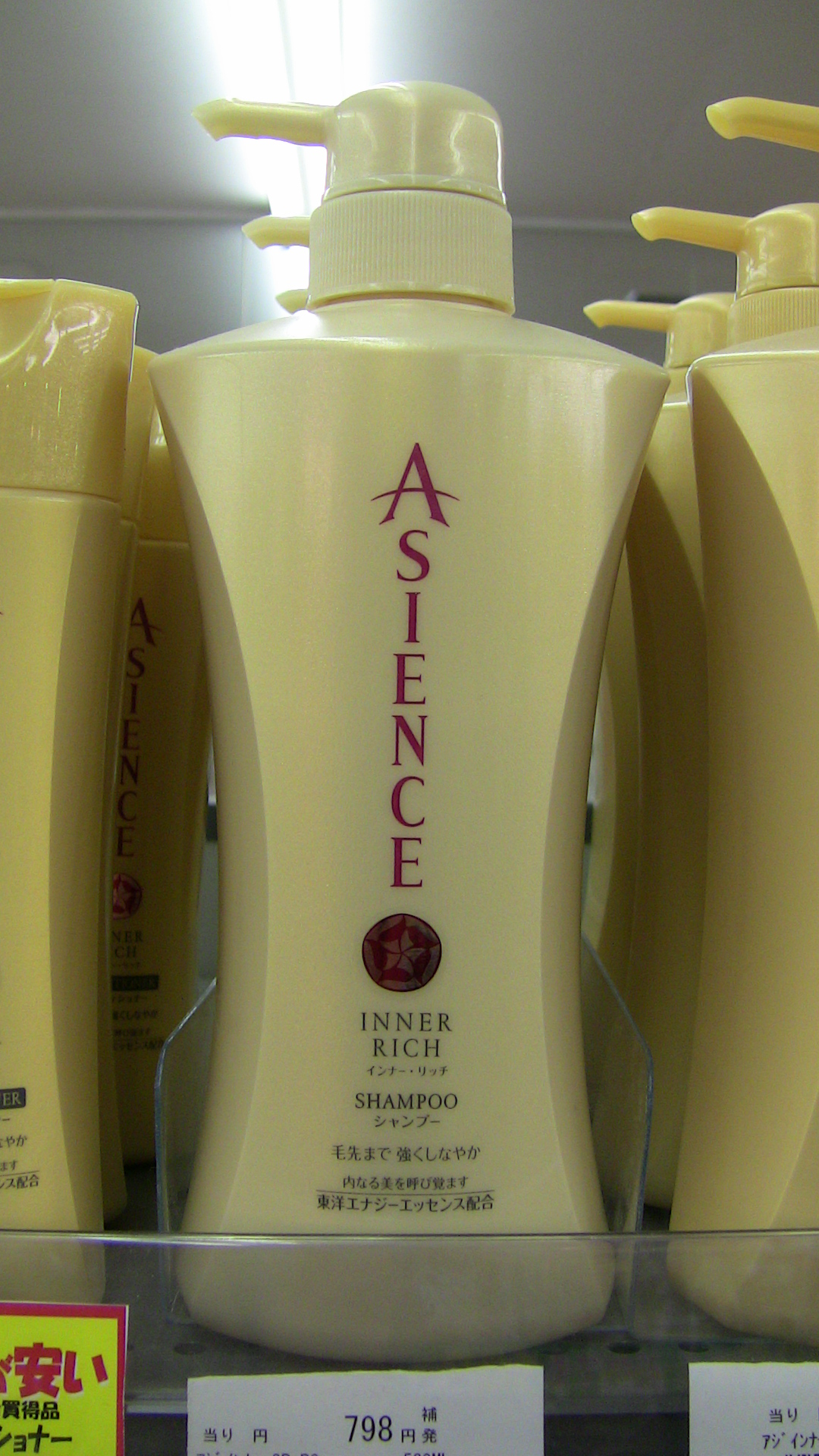 Kao Corporation Asience